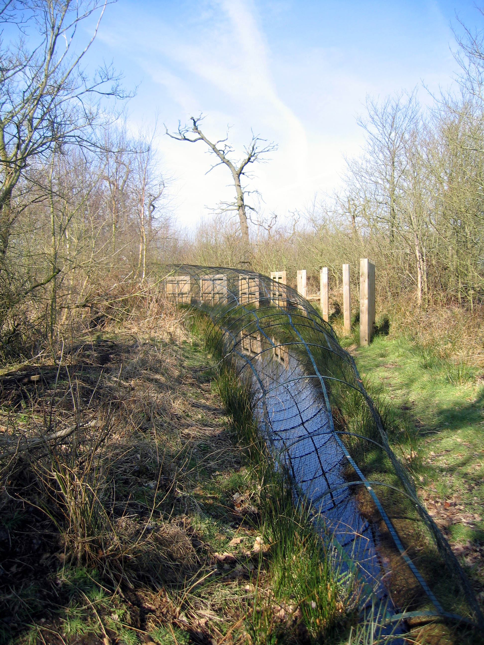 Photograph taken by me on March 6th 2005. It shows one of the covered arms of the decoy and the associated screens.